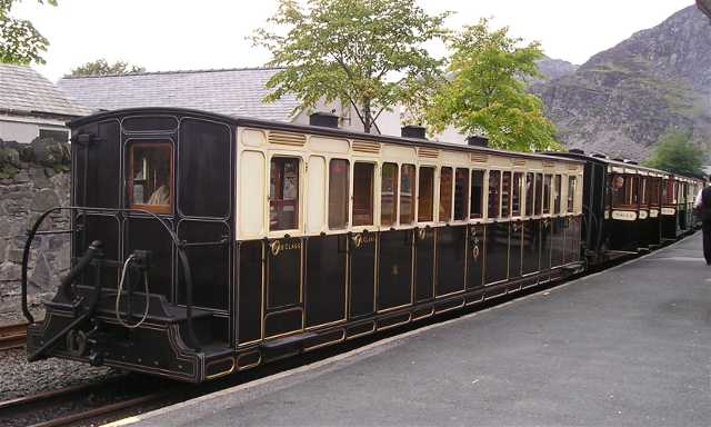 FR No. 15, The first bogie passenger carriage designed for service in the United Kingdom built for the Ffestiniog Railway in 1872 by Brown Marshalls & Co. Birmingham, fully restored and in service at Blaenau Ffestiniog on 10/08/2007.